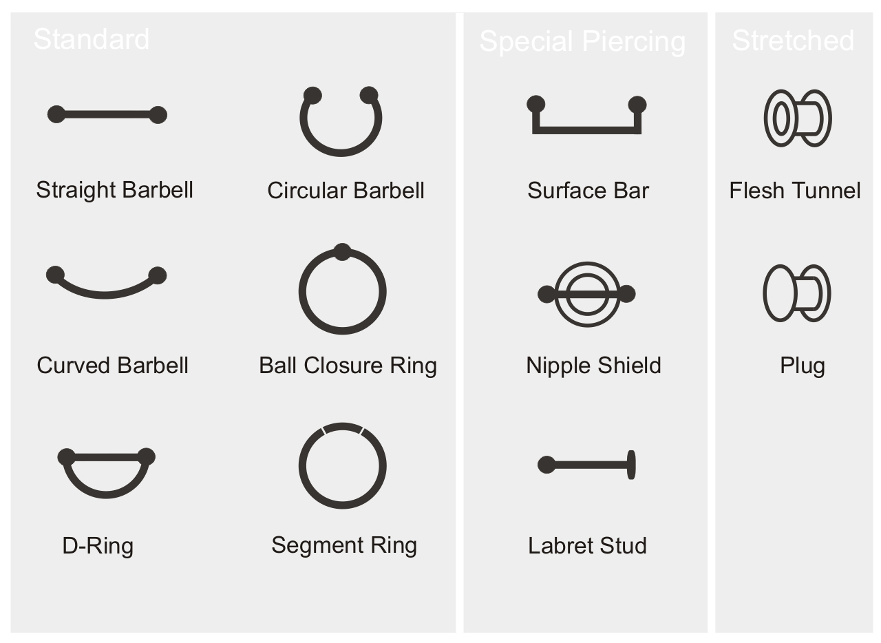 Piercing jewelry: overview